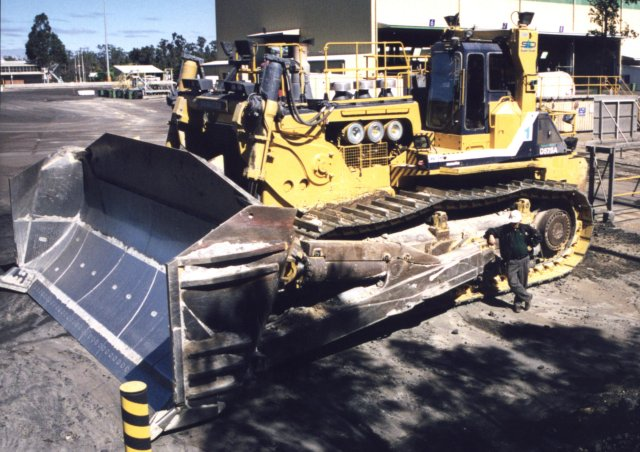 Komatsu D575 'Superdozer'.